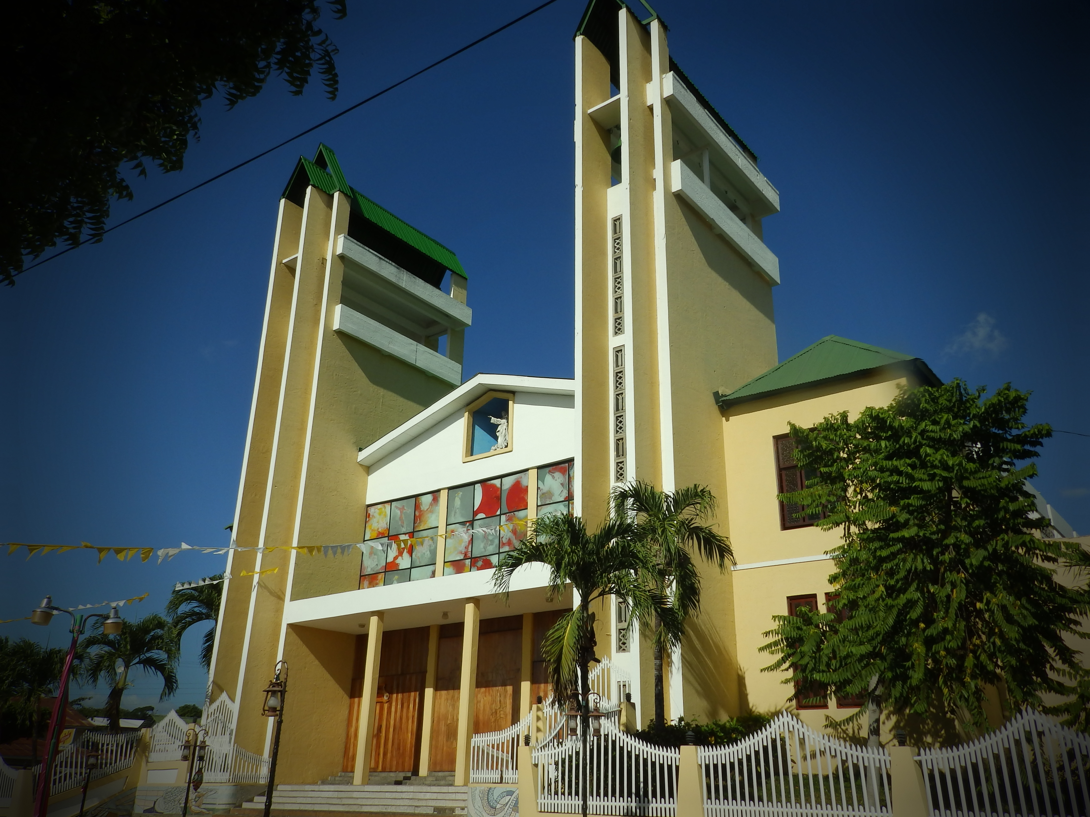 Catedral Nuestra Señora de la Asunción, Juigalpa, Nicaragua